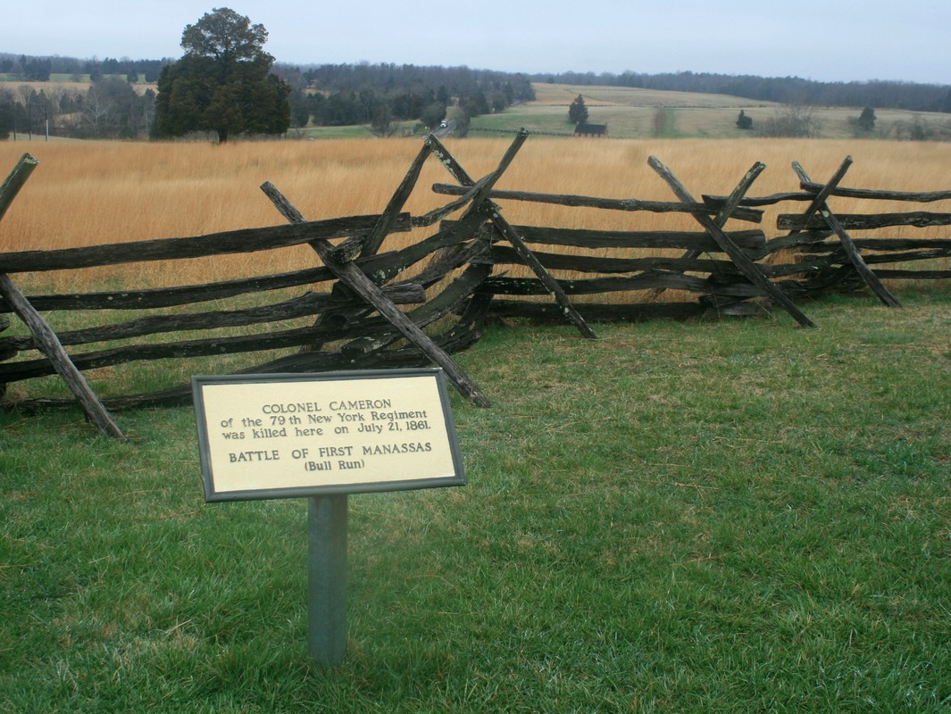 Colonel Cameron (79 NY) was killed here, assaulting Henry Youse Hill